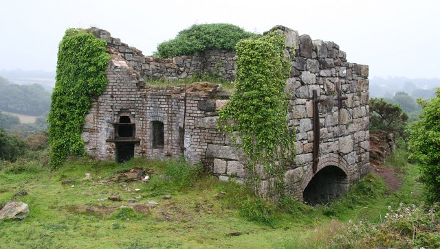 Brunton calciner at Wheal Busy, Cornwall, England